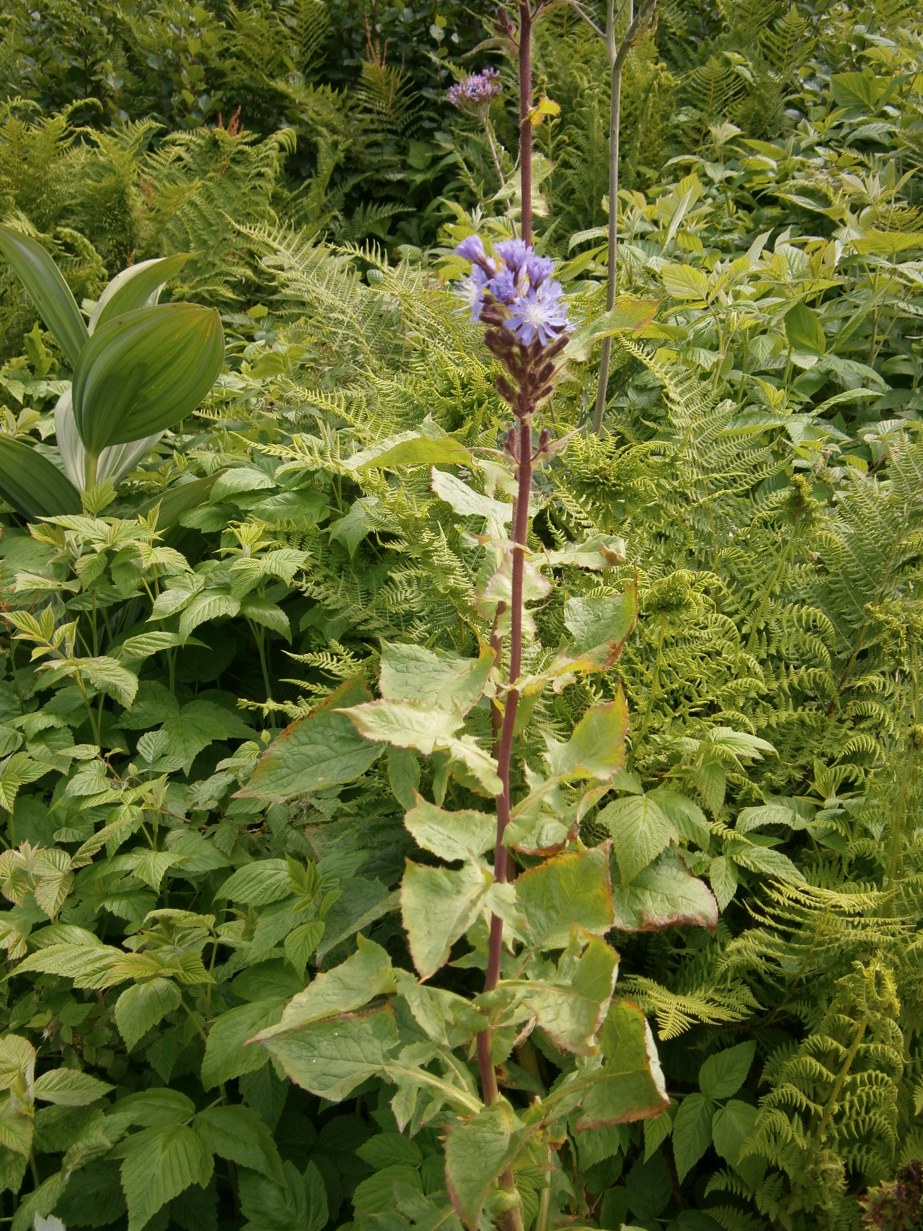 Cicerbita alpina